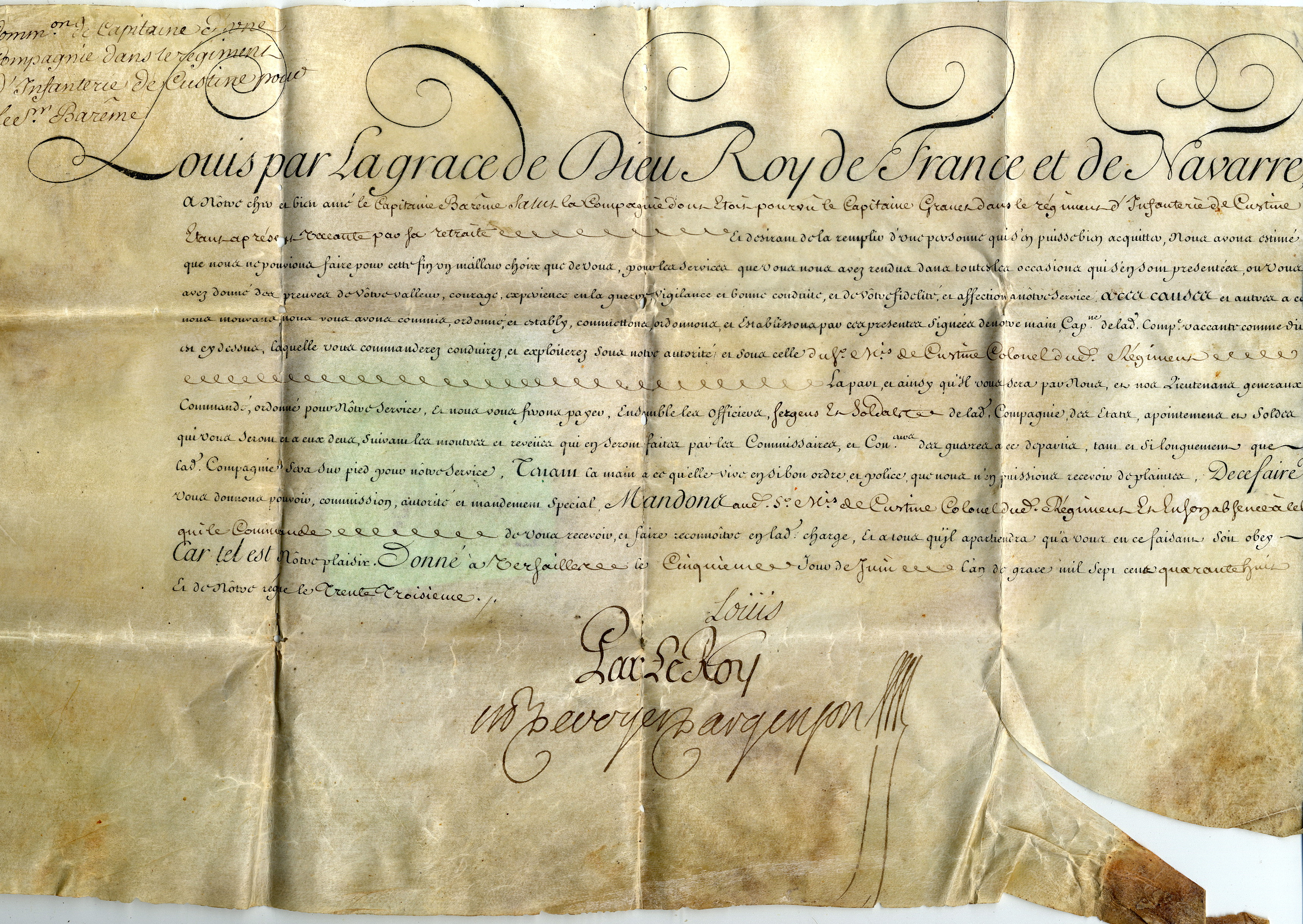 1788 royal order for Comte de Barrême